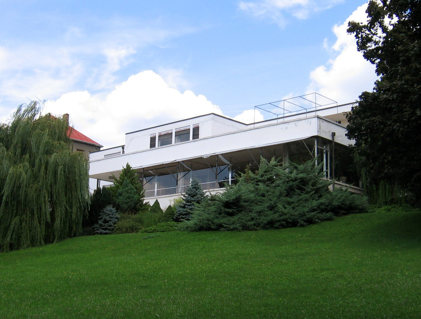 Villa Tugendhat in Brno, Czech Republic.